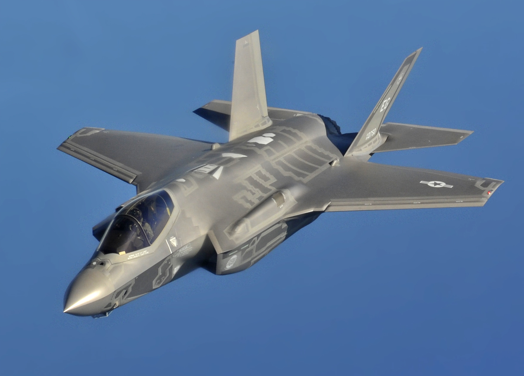 A U.S. Air Force F-35A Lightning II Joint Strike Fighter from the 58th Fighter Squadron, 33rd Fighter Wing, Eglin AFB, Fla. performs an aerial refueling mission with a KC-135 Stratotanker from the 336th Air Refueling Squadron from March ARB, Calif., May 14th, 2013 off the coast of Northwest Florida. The 33rd Fighter Wing is a joint graduate flying and maintenance training wing that trains Air Force, Marine, Navy and international partner operators and maintainers of the F-35 Lightning II.